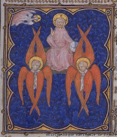 God surrounded by seraphim. From the Petites Heures de Jean de Berry, a 14th-century illuminated manuscript. Courtesy of the Bibliothèque nationale de France: [1] Category:Illuminated manuscript images